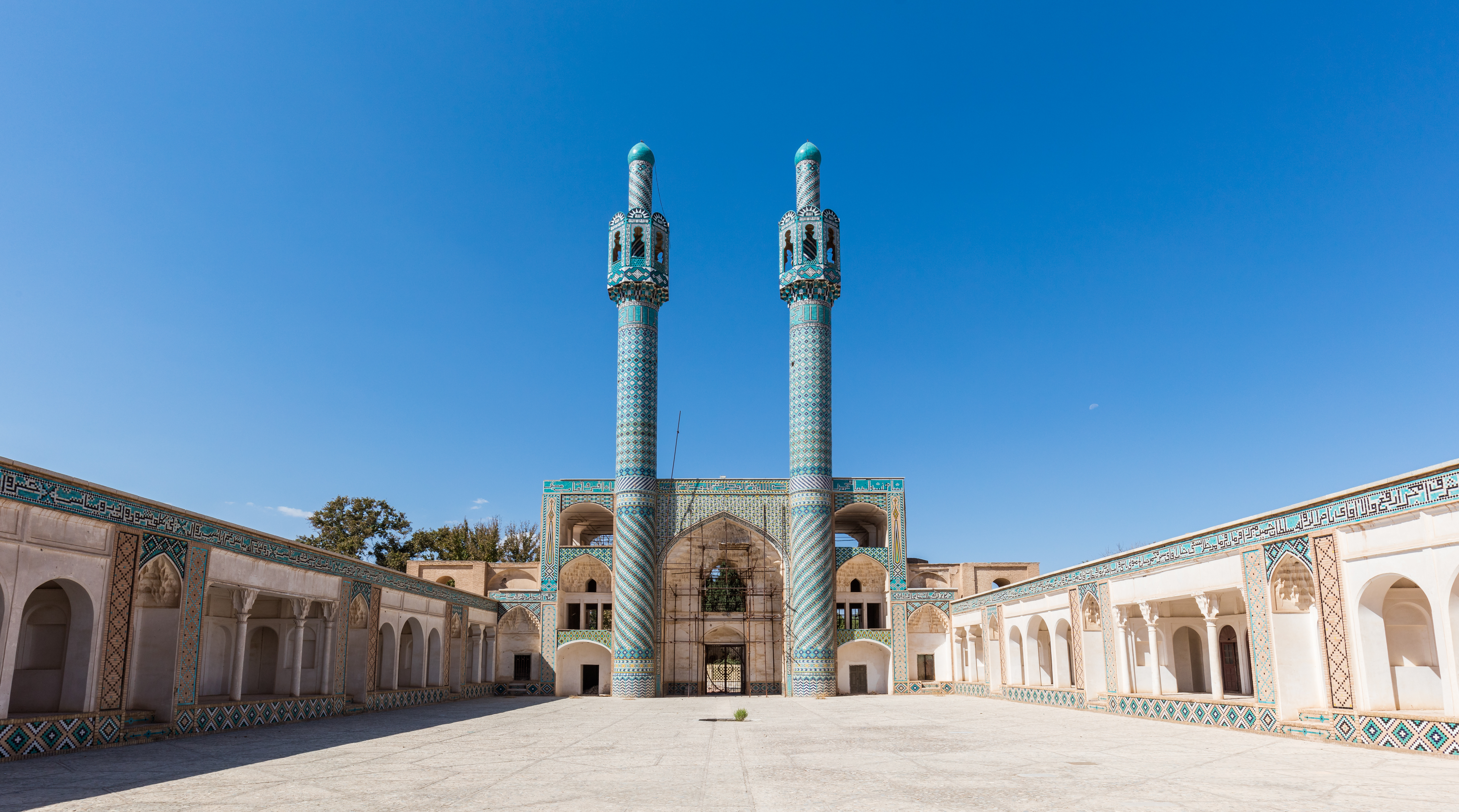 Shah Nematollah Vali Shrine, Mahan, Iran